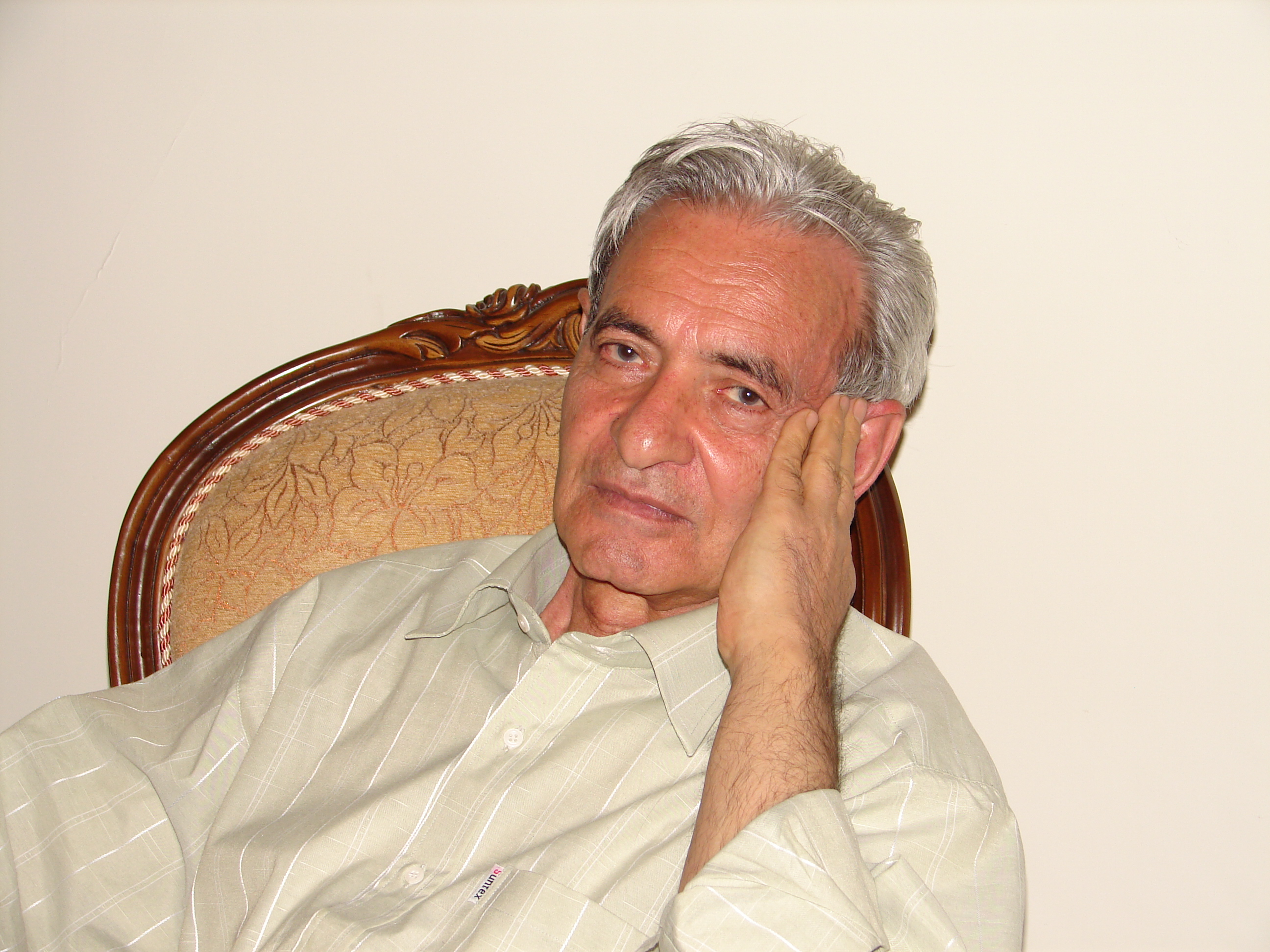 Portrait of Behrooz Servatian, Iranian scholar, Researcher and Literature Critic.